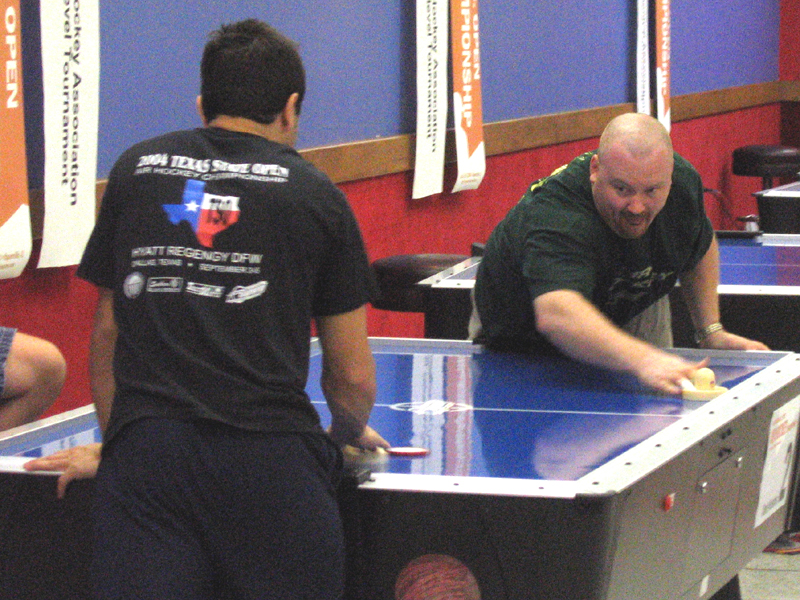 Photo by Andrew Flanagan features current World Champion Danny Hynes